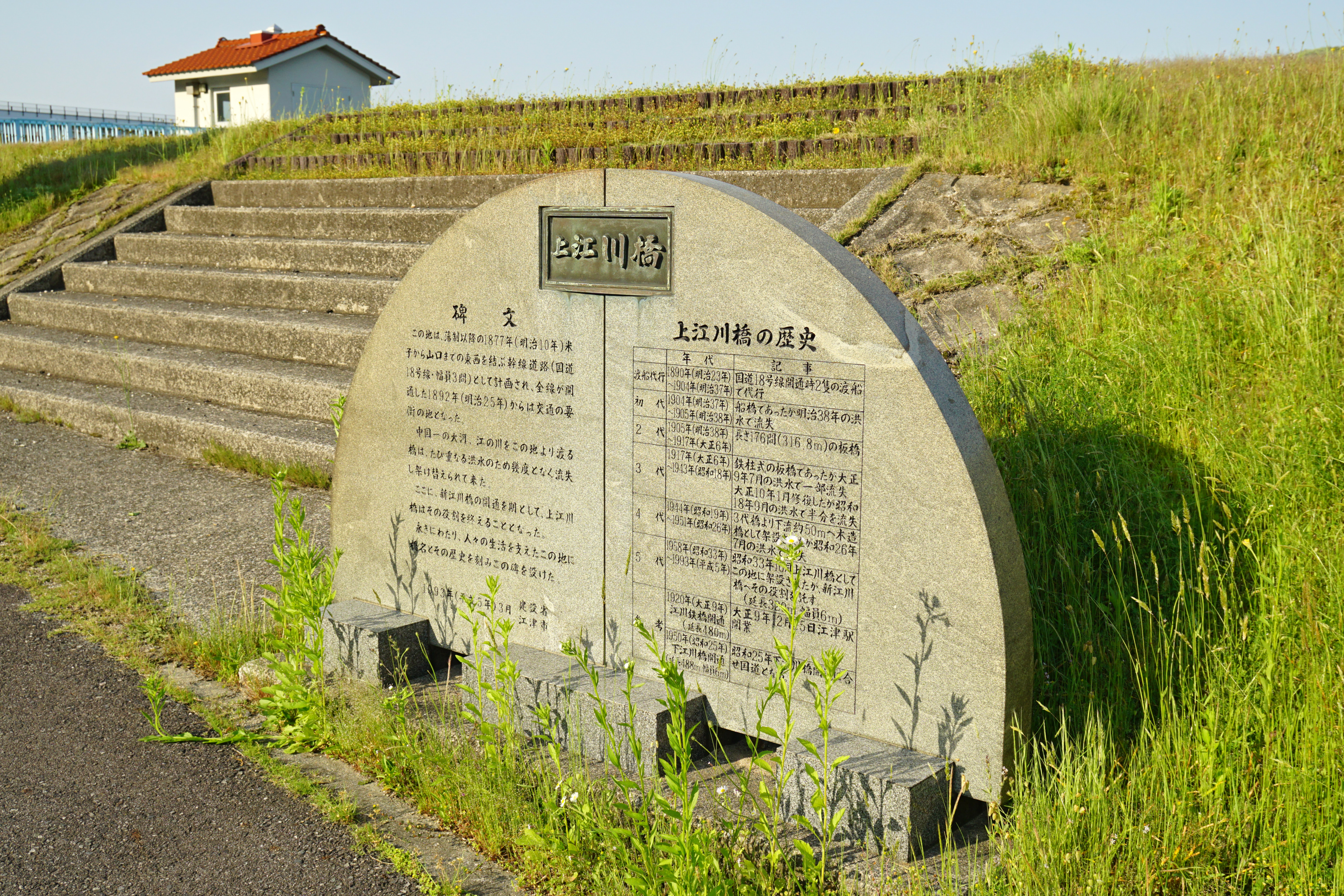 Gōnokawa River at Gotsu, Shimane prefecture, Japan